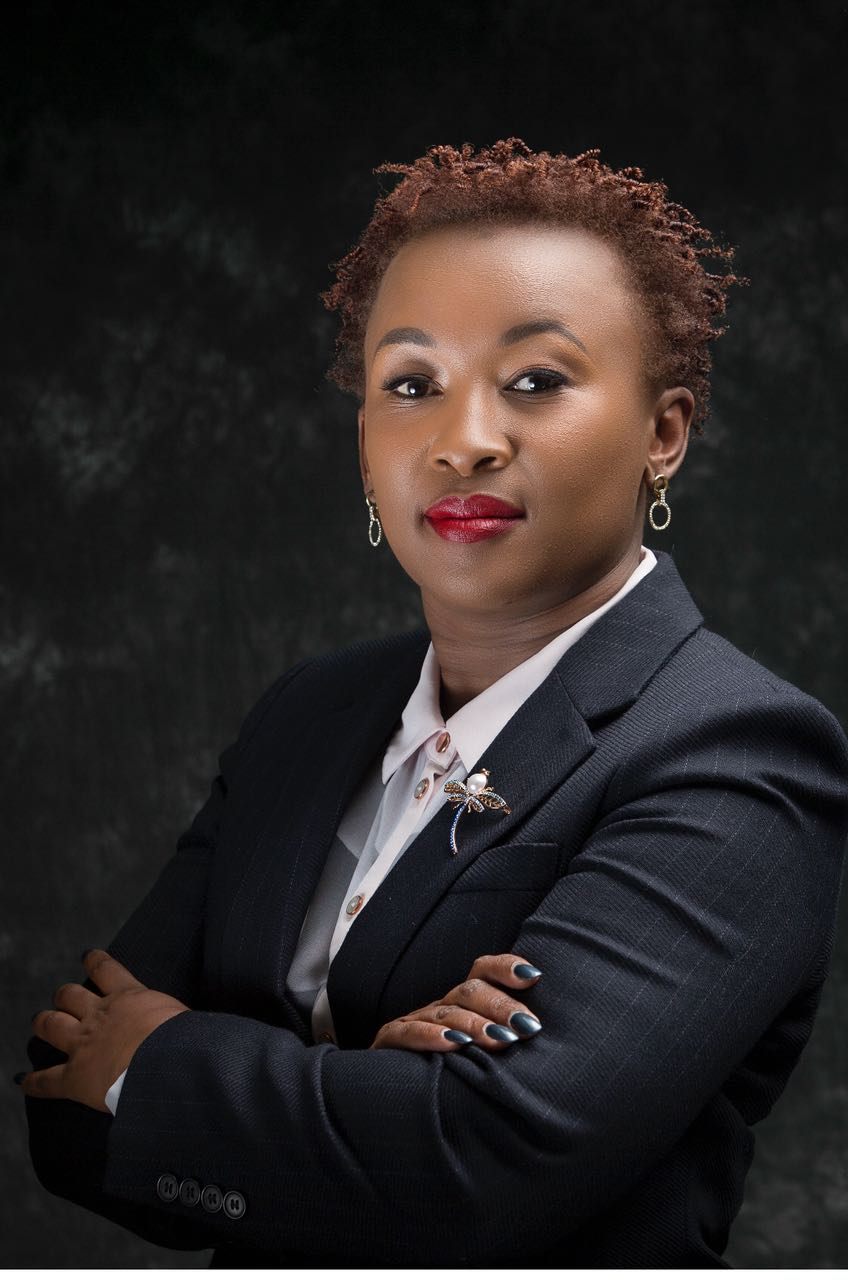 Director, Consumer Business Unit at Safaricom